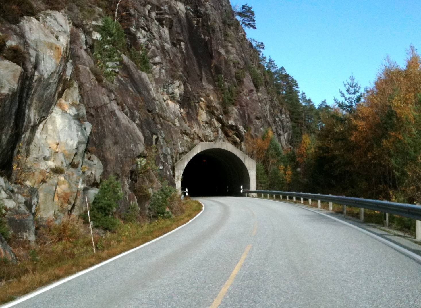 Almenningstunnelen in the municipality of Suldal in Rogaland, Norway